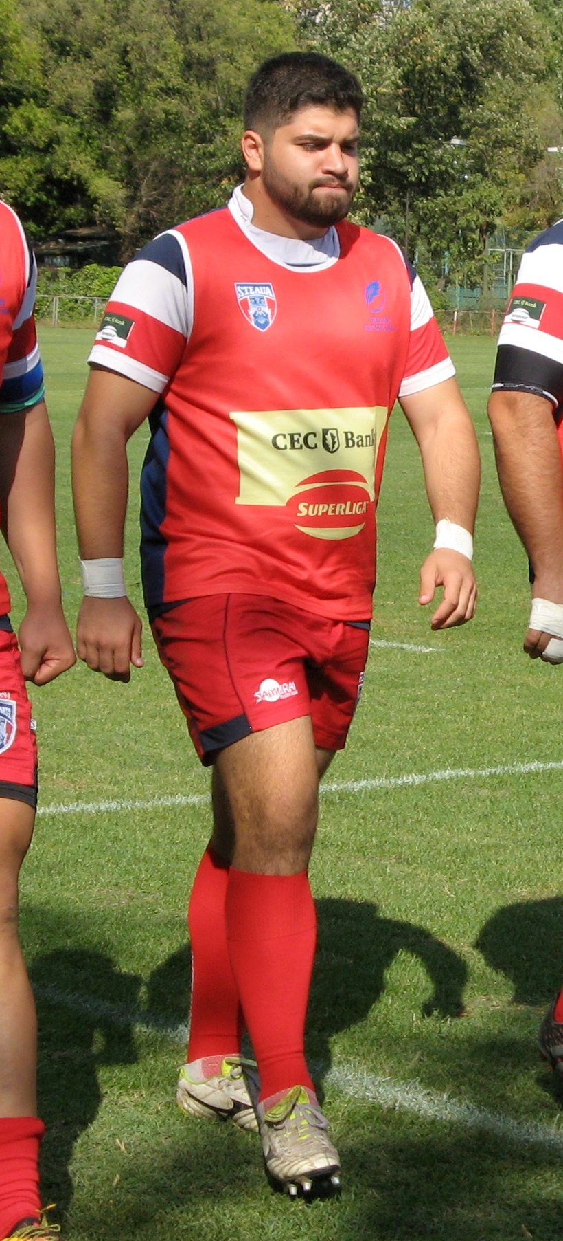 Romanian rugby union football player Ionuț Melecciu, player of CSA Steaua București rugby club seen training before a match against CSM Baia Mare in Round 5 of Romanian Rugby SuperLiga in September 2017